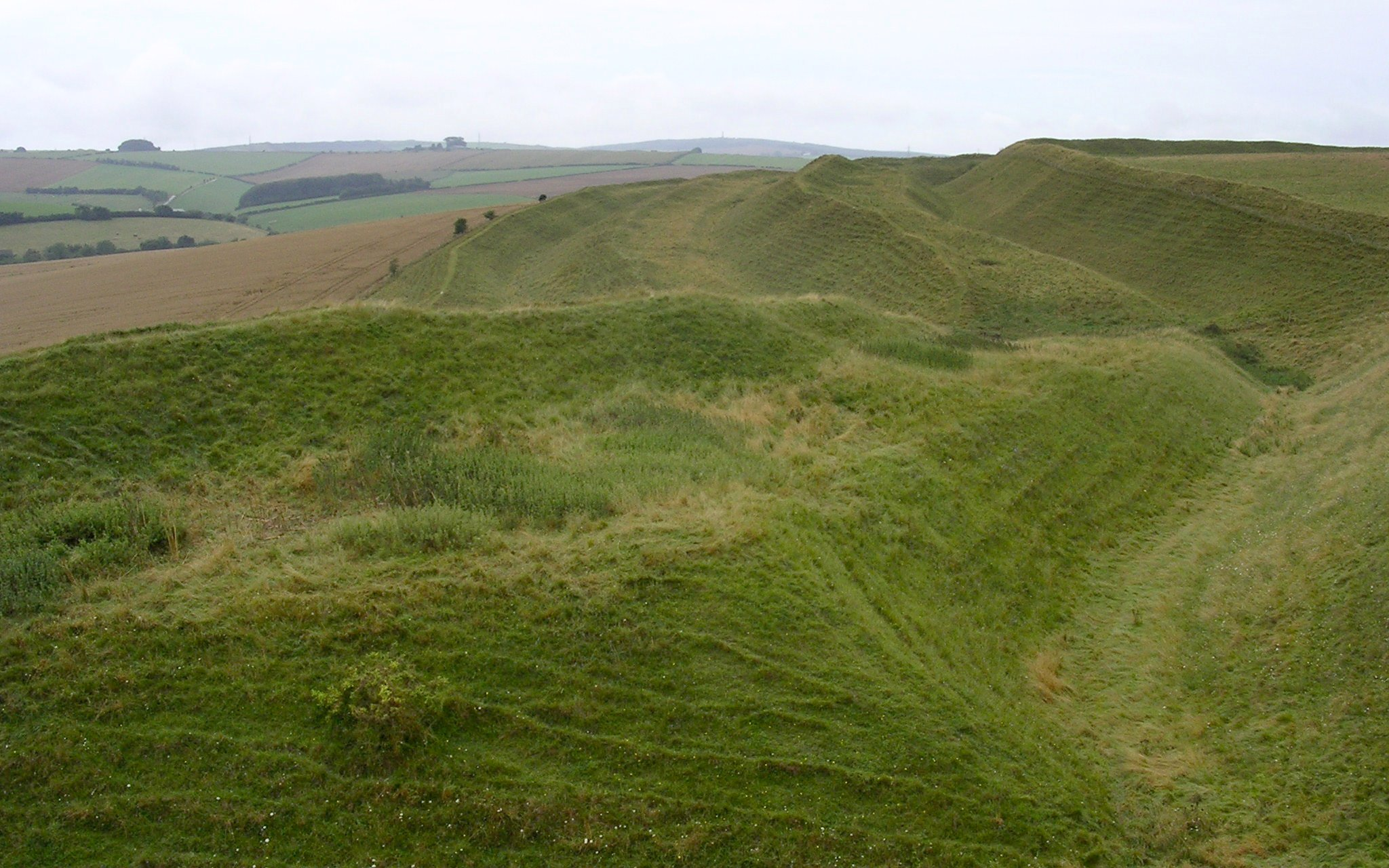 Looking west along the southern flank of Maiden Castle iron age hillfort in Dorset, towards the Hardy Monument. The ditches are not as deep as they once were, and the ramparts were once topped with wooden pallisades.